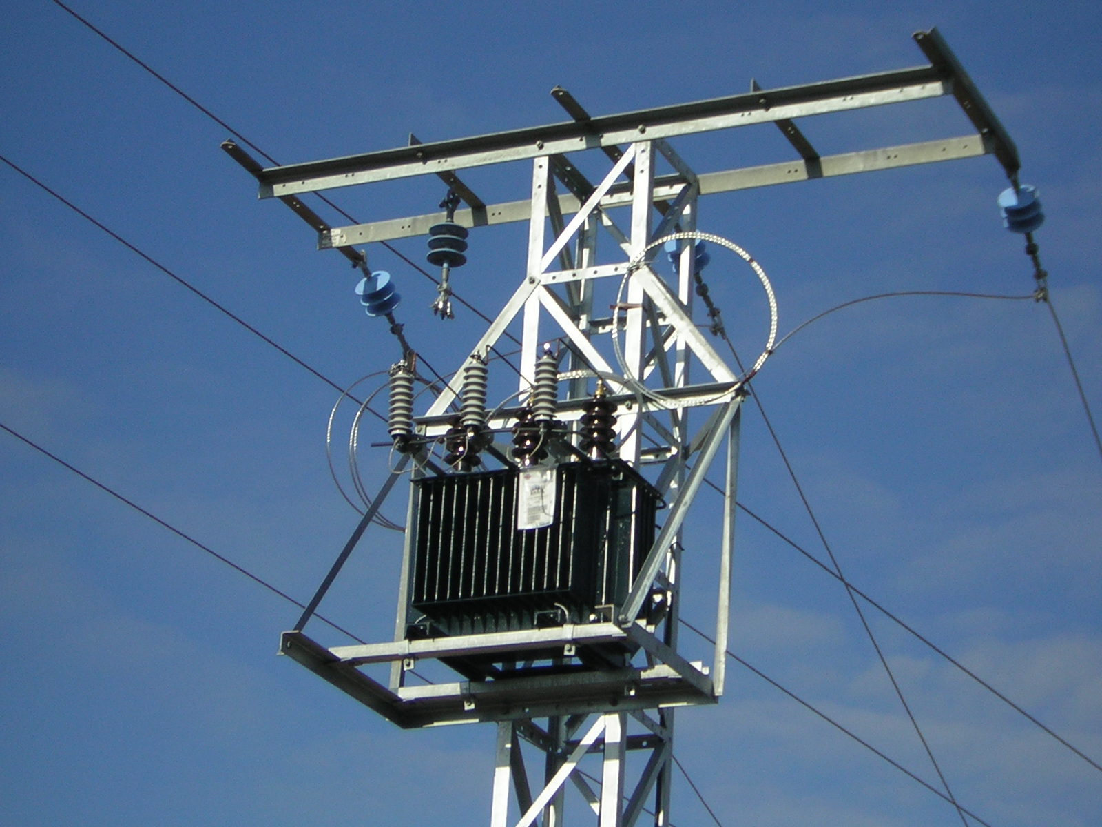 Weatherproof Transformer